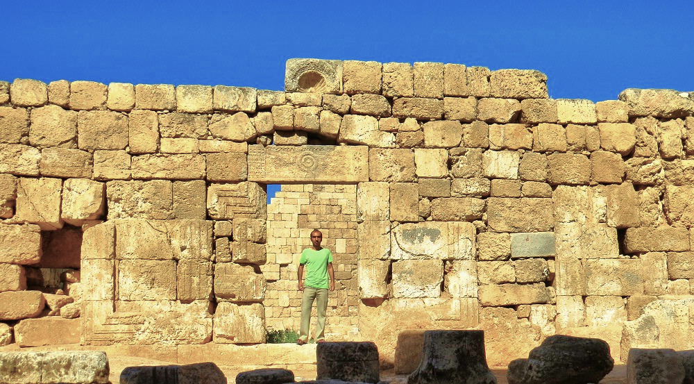 Eshtemoa